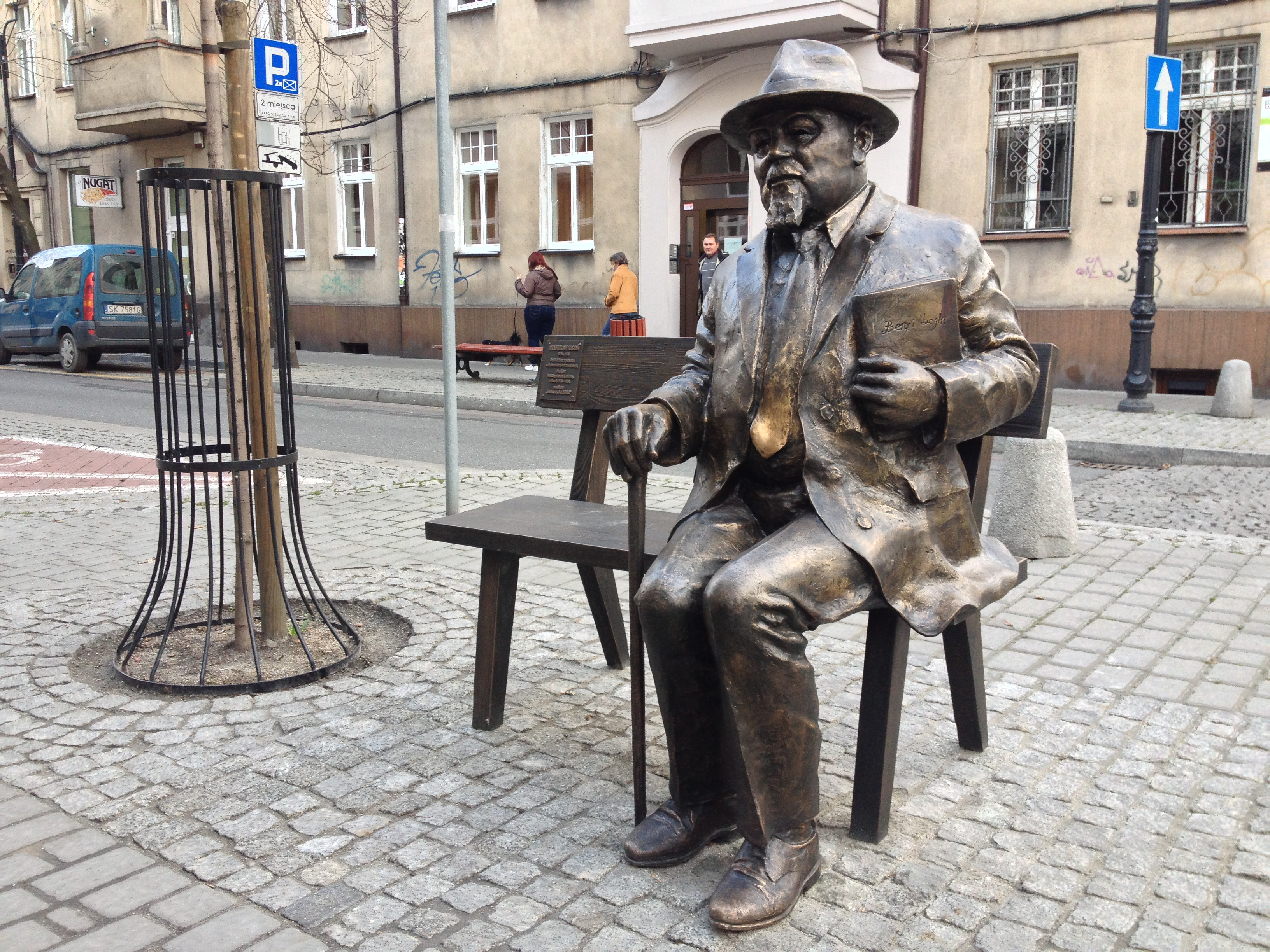 Stanislaw Ligoń - sculpture in Katowice (Upper Silesia), Ligonia Street